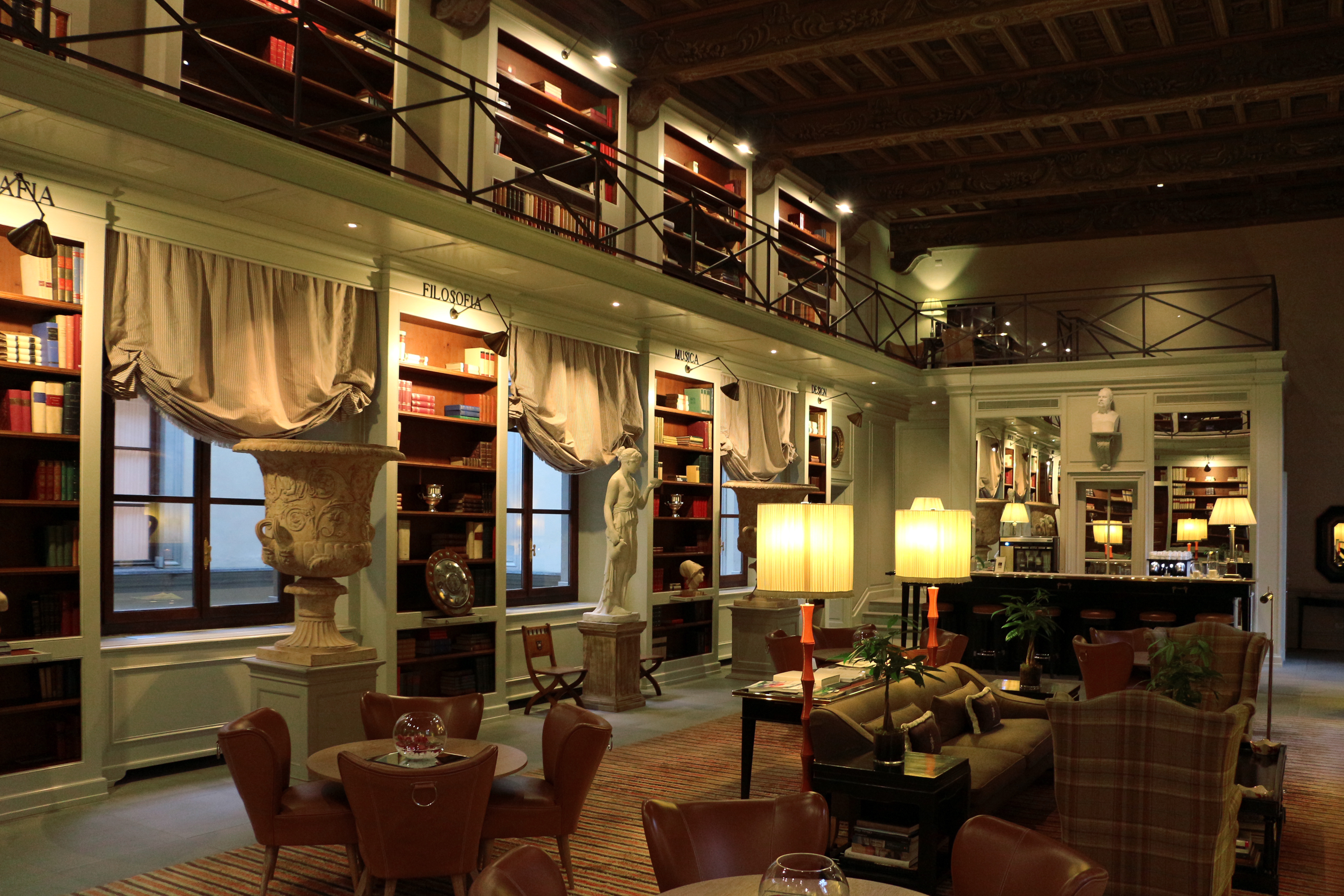 Palazzo Corsi-Tornabuoni - Interior